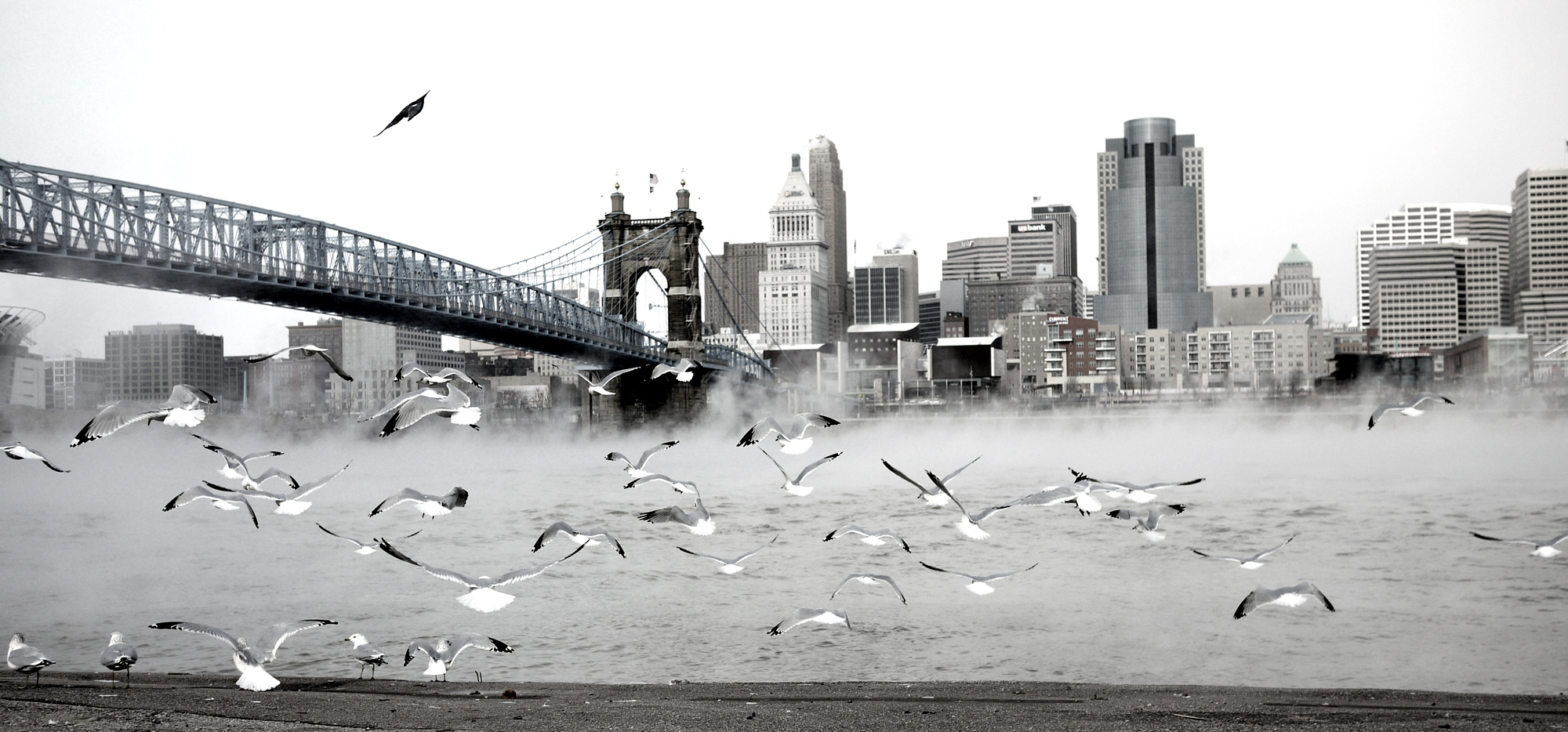 frosty Ohio River